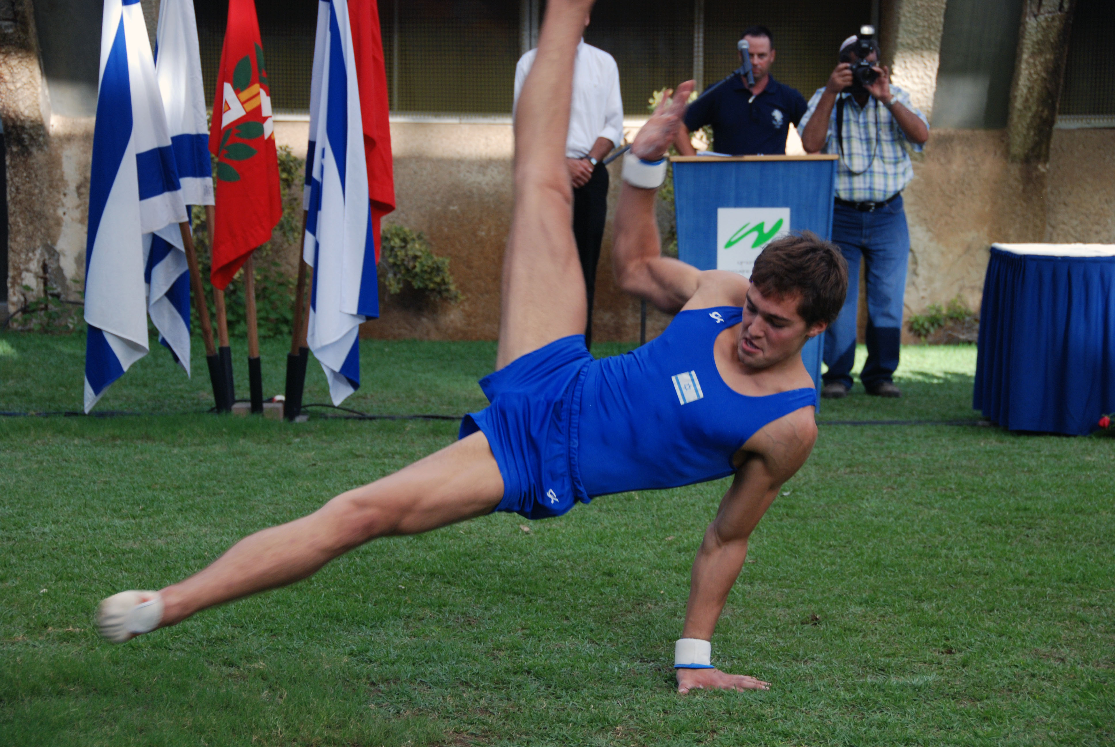 Alexander Shatilov performs in IDF officers championship 2008